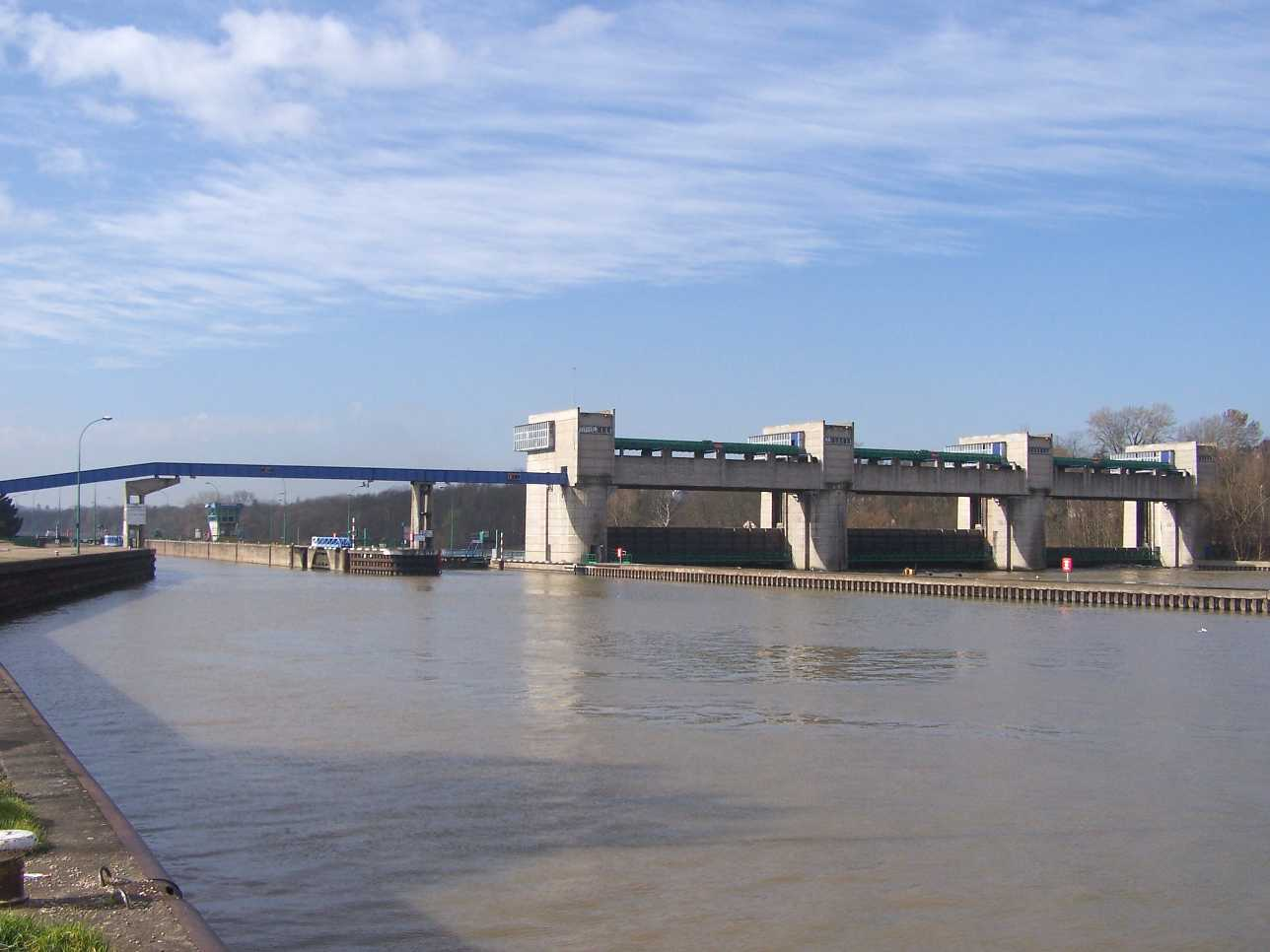 Lock of Andrésy (Yvelines, France)